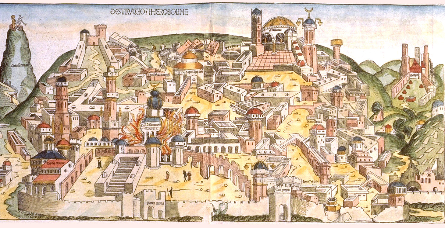 Woodcut of the destruction of Jerusalem by the Chaldeans from the Nuremberg Chronicle